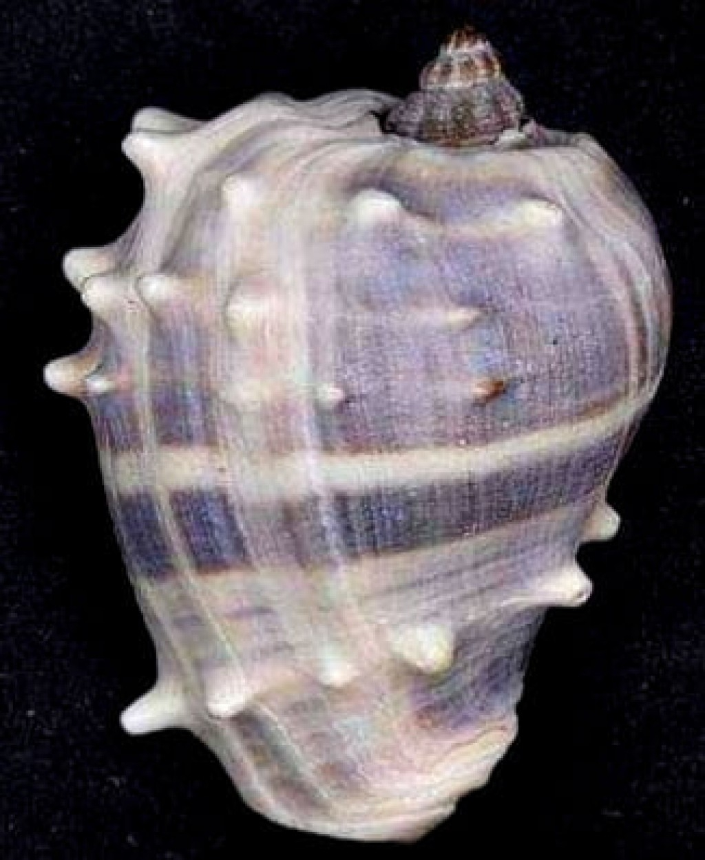 The seashell of the species Melongena melongena (Linnaeus, 1758)[1]; from Gibara (Cuba's Northeastern Coast). Upper side.